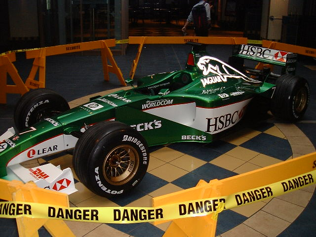 Eddie Irvine's Jaguar R1 at 2000 Canadian Grand Prix